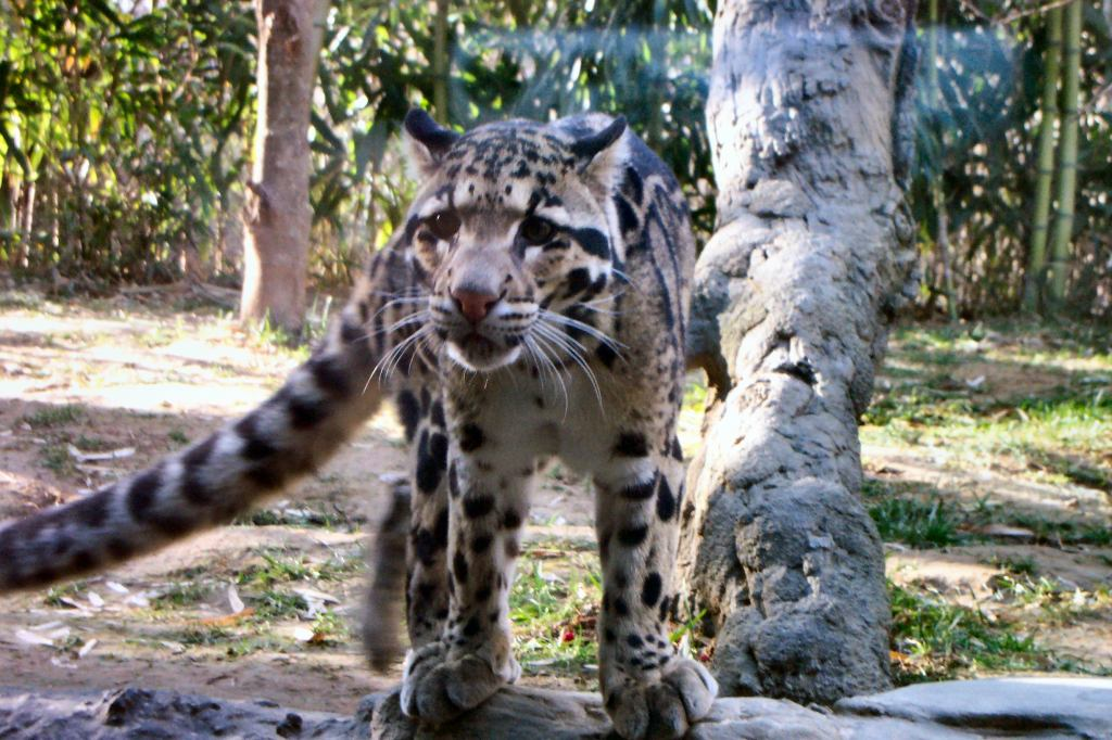 Clouded leopard at Nashville Zoo at Grassmere, Nashville, TN, USA.